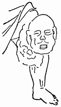 Jinmenso (人面瘡) from the Fude-no-susabi (筆のすさび)